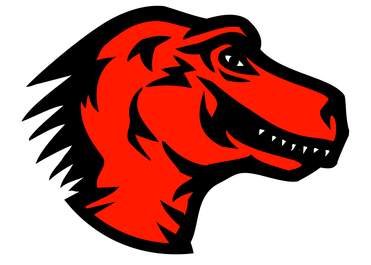 The Mozilla project dinosaur head logo